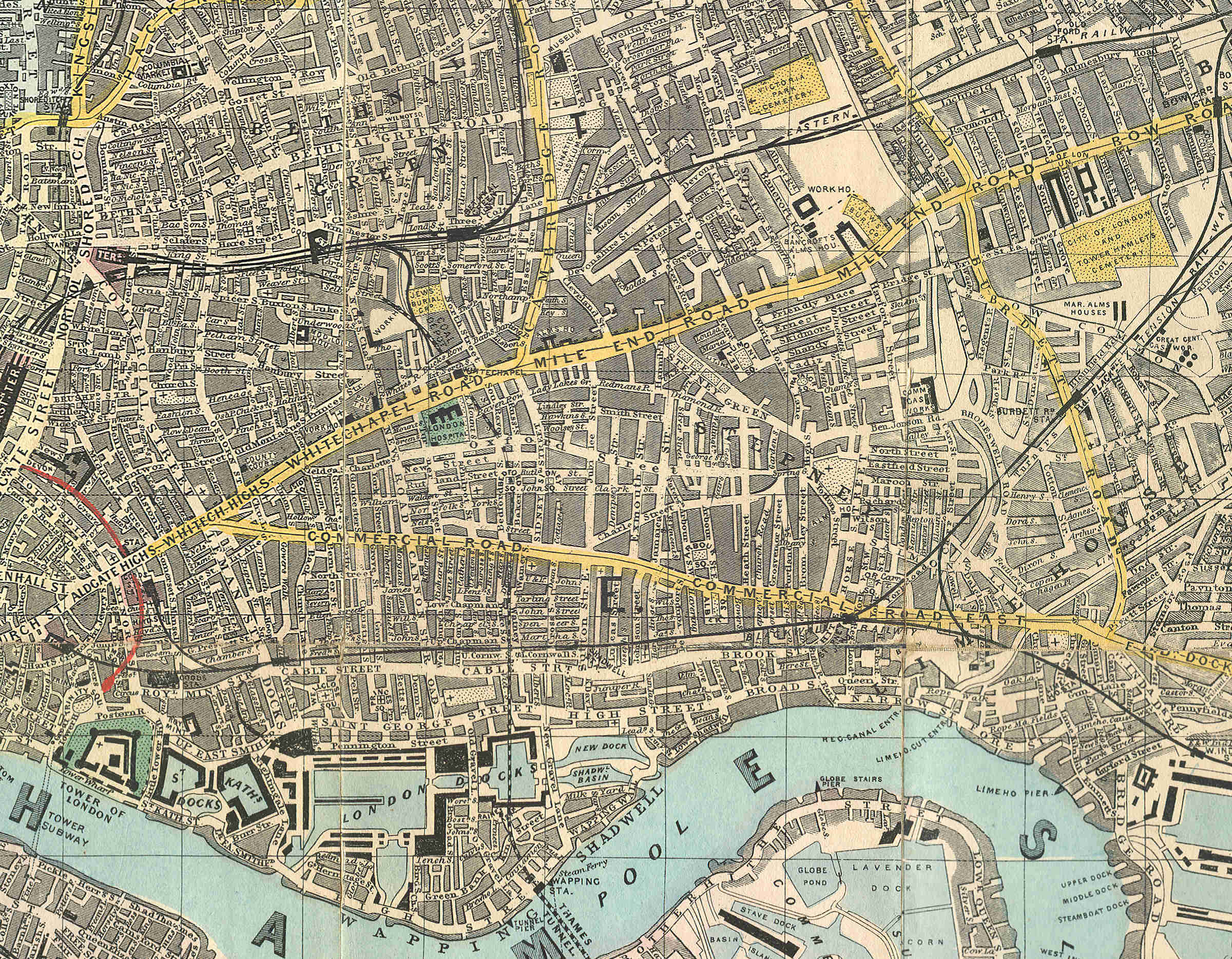 1882 Reynolds Map of East London Source Birkbeck History Dept., not on the web